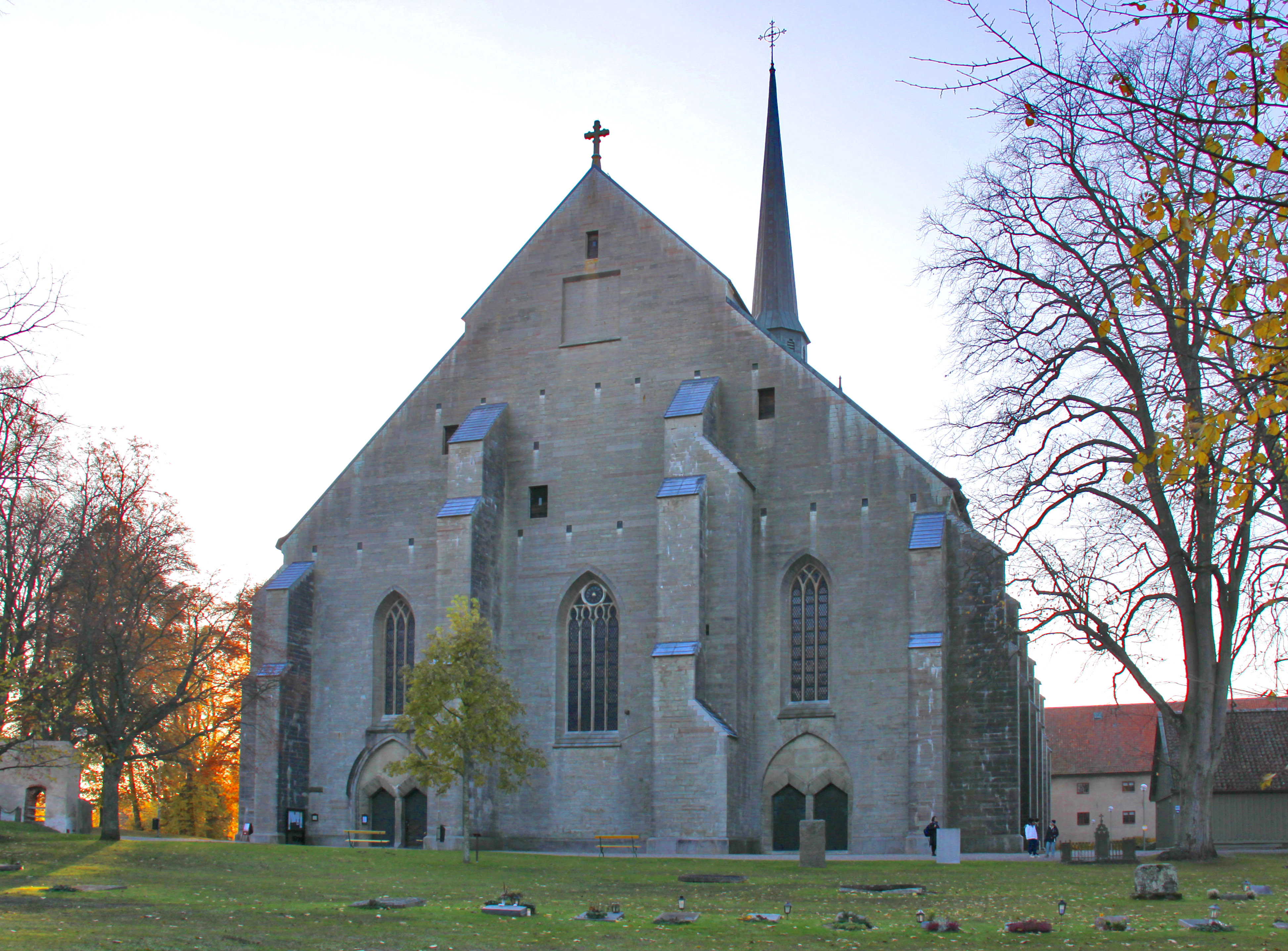 Vadstena, Sweden; the monastery church.